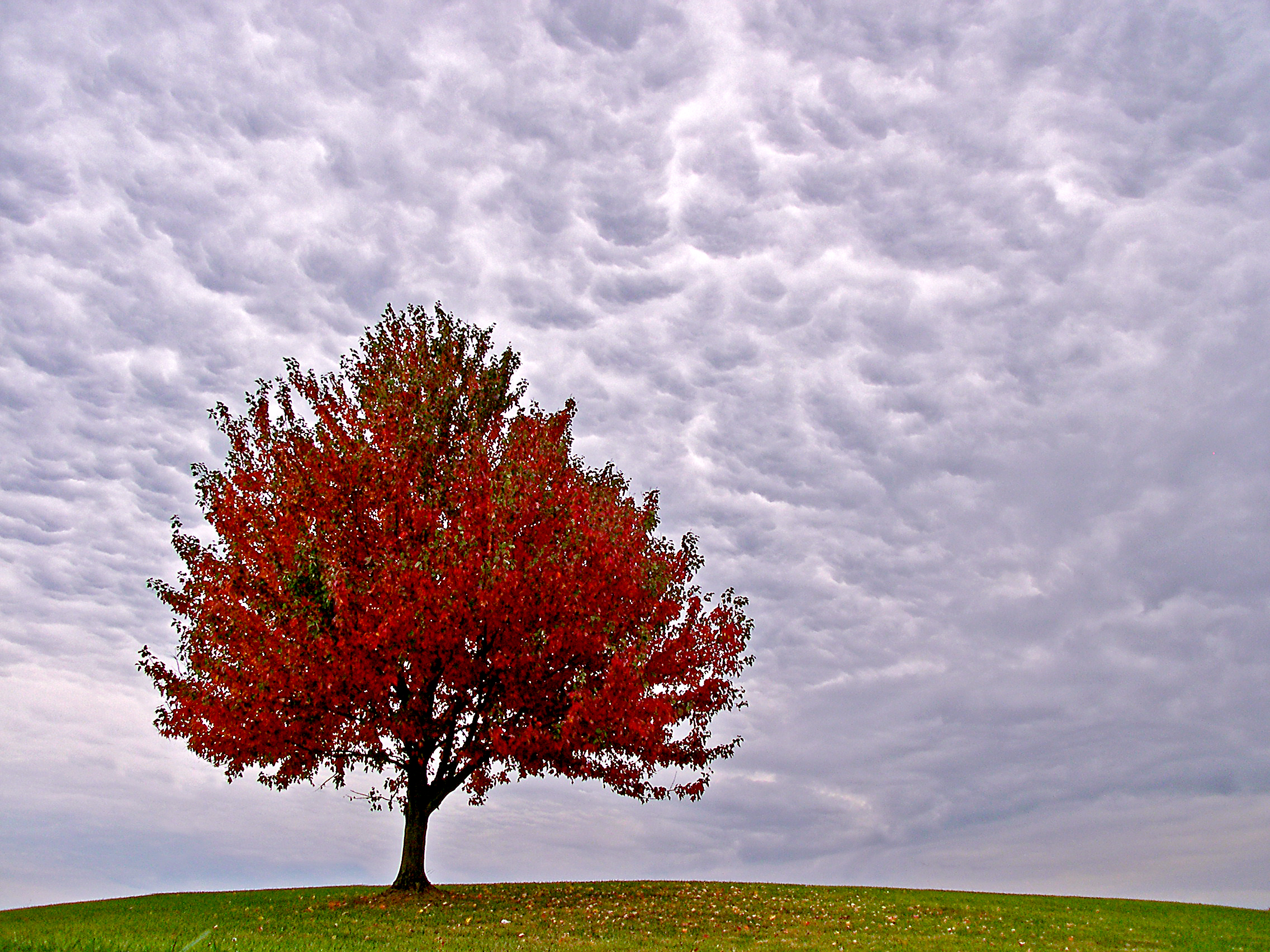 Taken at Masterson Station Park, Lexington, KY.